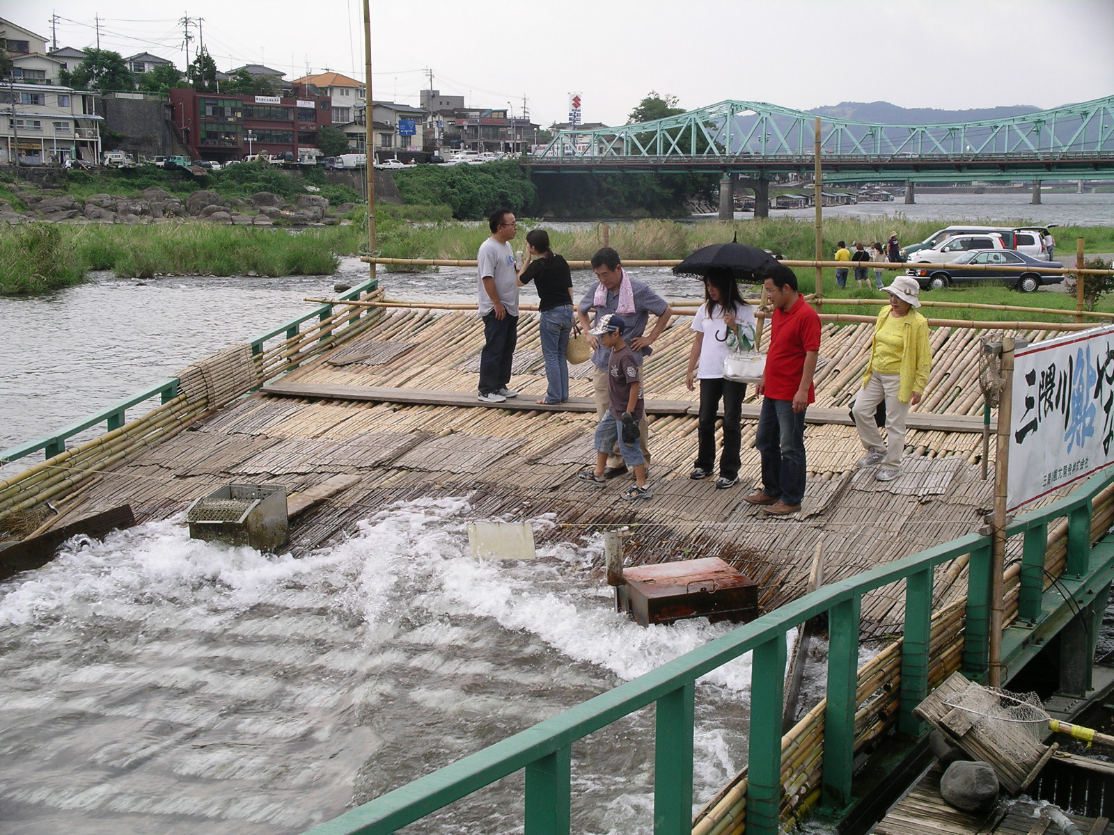 The ayuyana fishtrap in Hita city, Oita.